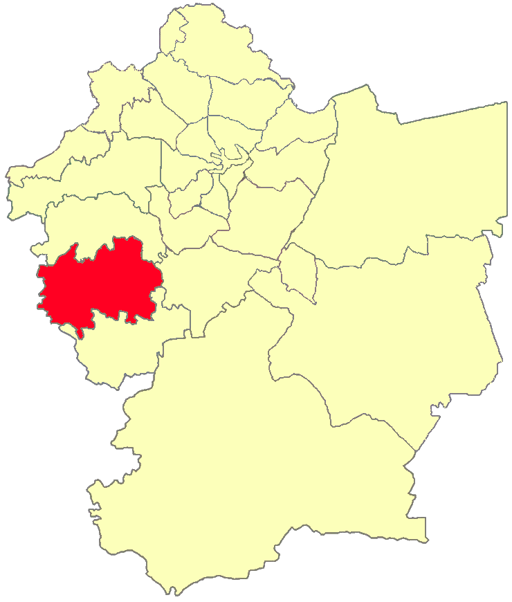 Amman districts